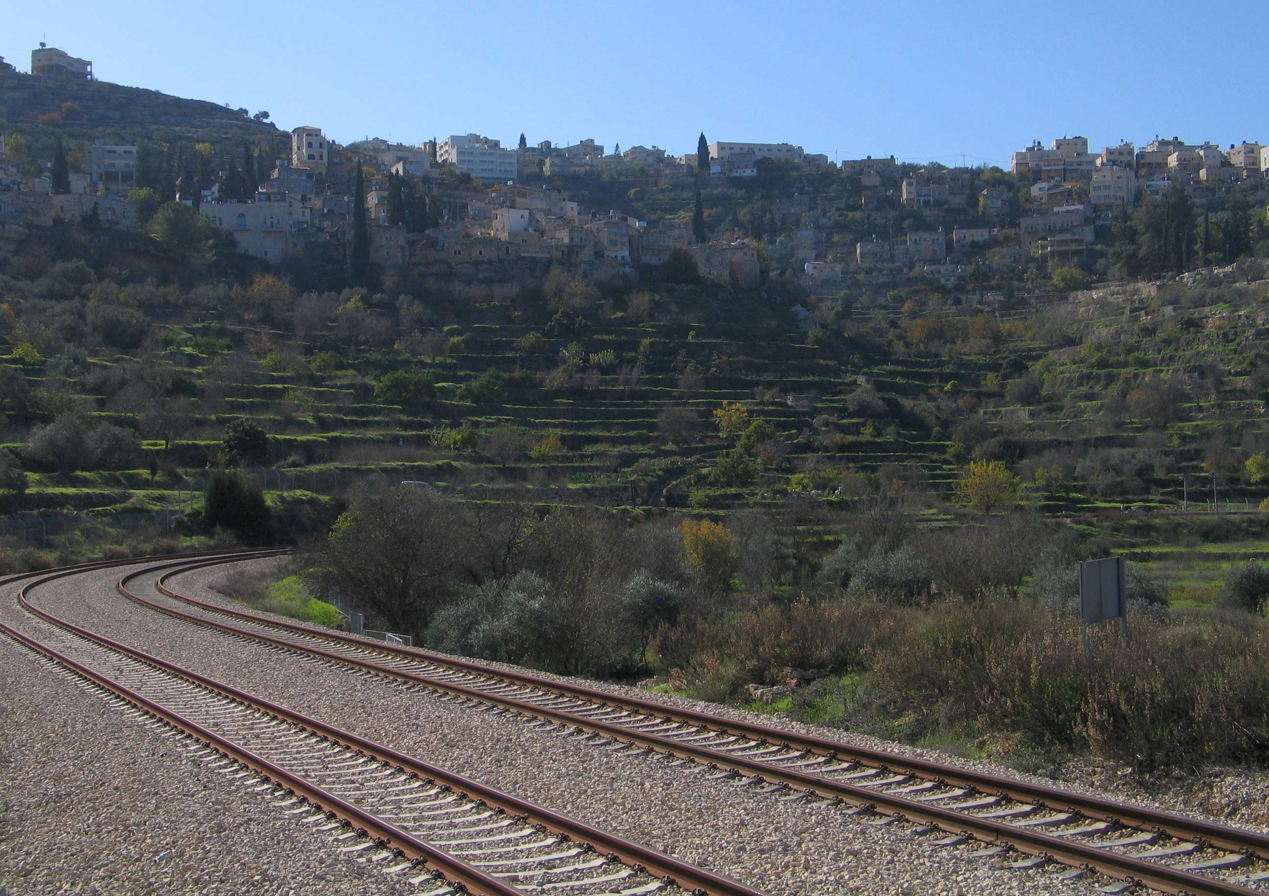 Village of Batir, West Bank.